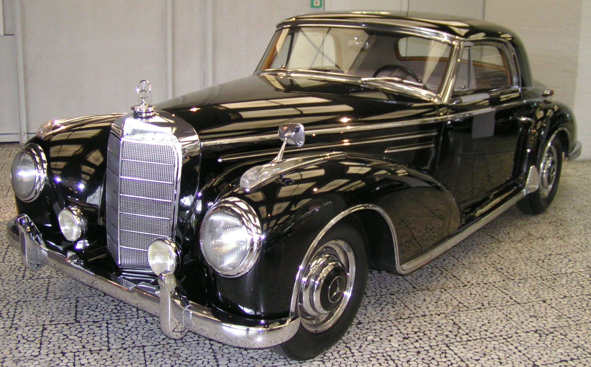 Photo of a 1956 Mercedes-Benz Type 300 Sc Coupe, from the Mercedes Museum, Stuttgart, Germany.